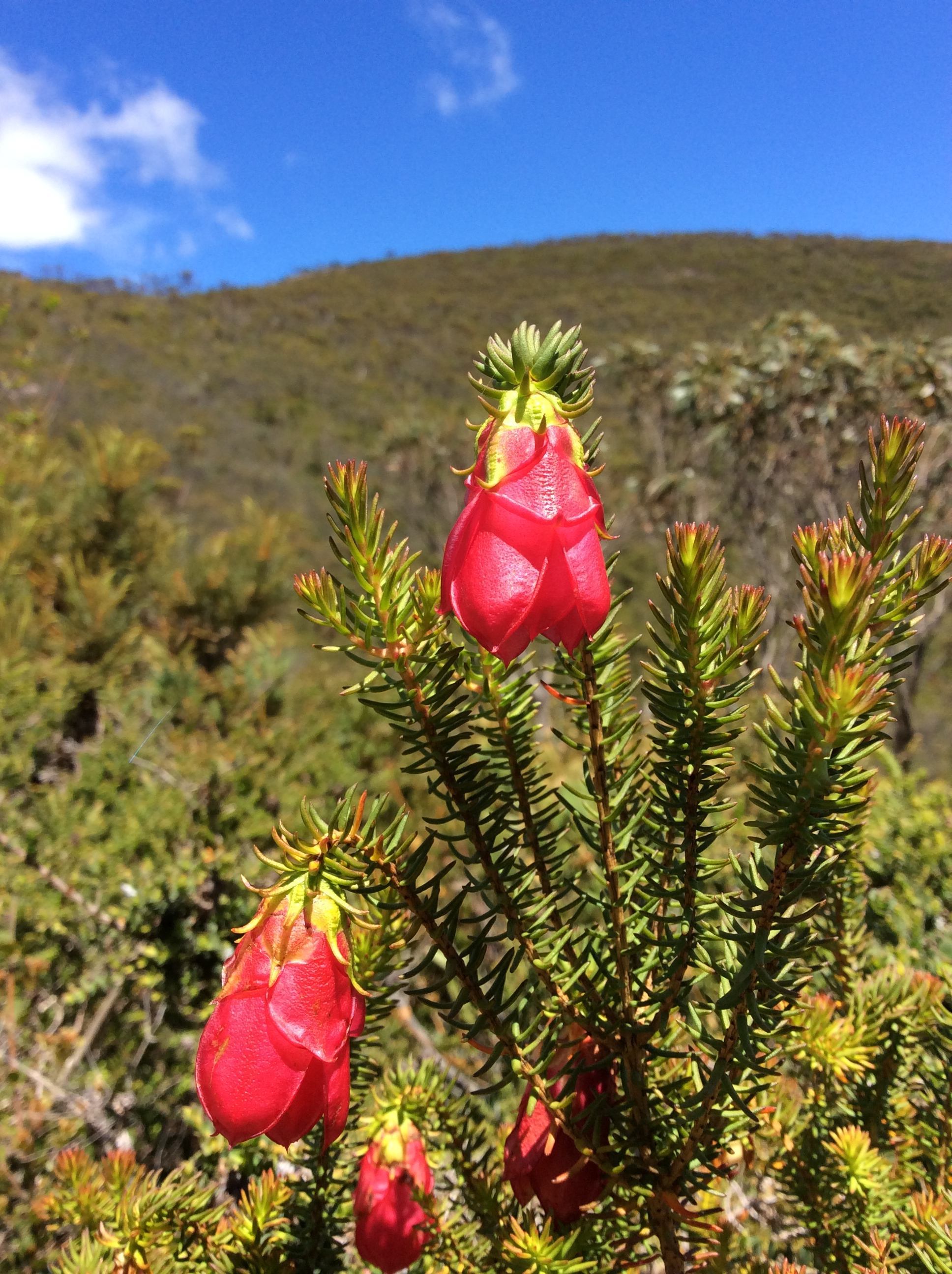 Darwinia sp. on Mount Trio, Stirling Range, Western Australia